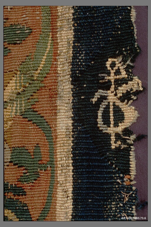 Flemish, Brussels; Tapestry; Textiles-Tapestries